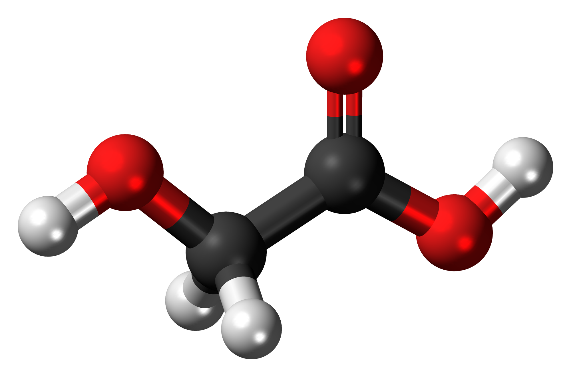 Ball-and-stick model of the glycolic acid molecule' also known as 2-hydroxyacetic acid, the smallest alpha hydroxy acid. Colour code: Carbon, C: black Hydrogen, H: white Oxygen, O: red